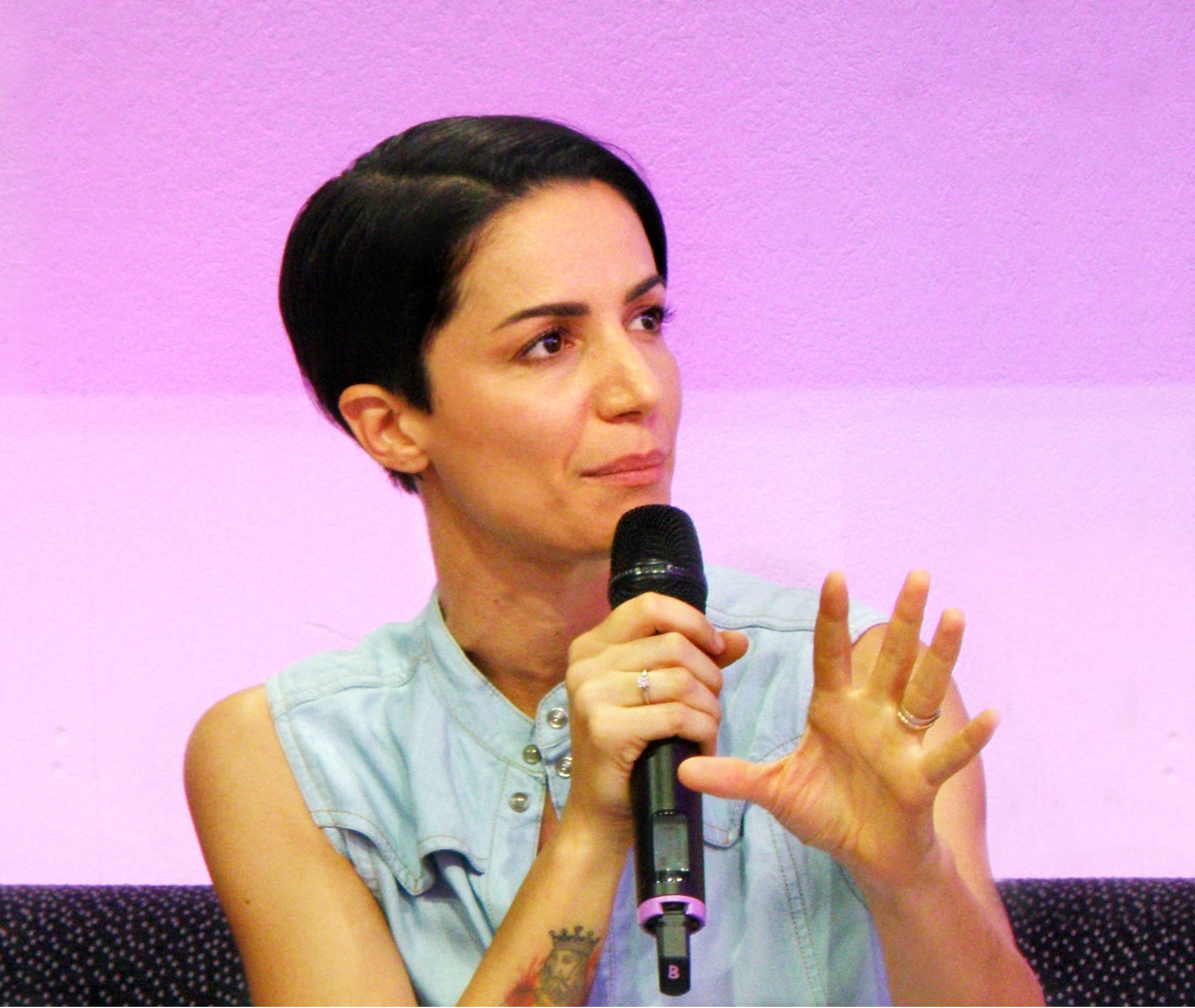 Andrea Delogu, italian radio-TV presenter, interviewed at Wired Next Festival 2018, Milano